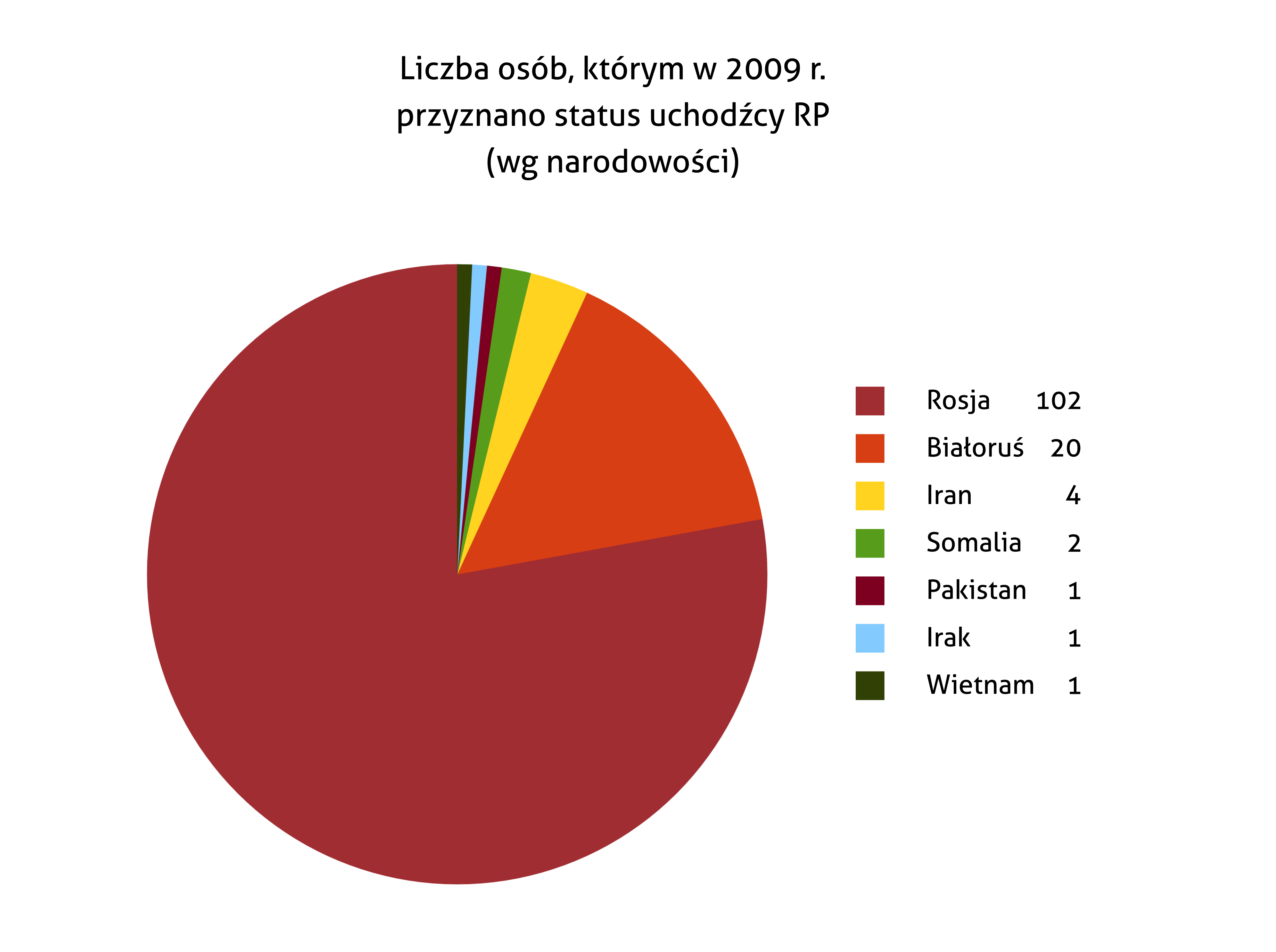 The pie chart represents people who get refugee status in Poland in 2009. data from polish government's refugees office